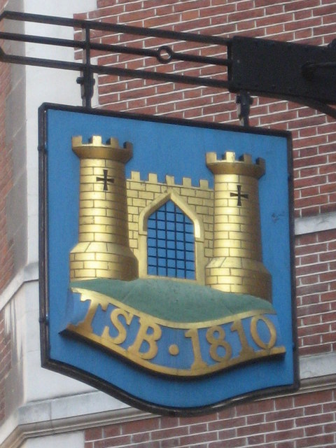 Sign for the (former) Trustee Savings Bank, Lombard Street, EC3. See 1112062. Such hanging signs were banned by Charles II, but replicas were erected for the coronation of Edward VII in 1902.